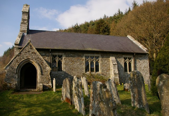 St Anno's Church, Llananno This church has one of the very few remaining rood screens left in a Radnorshire church, well worth visiting.